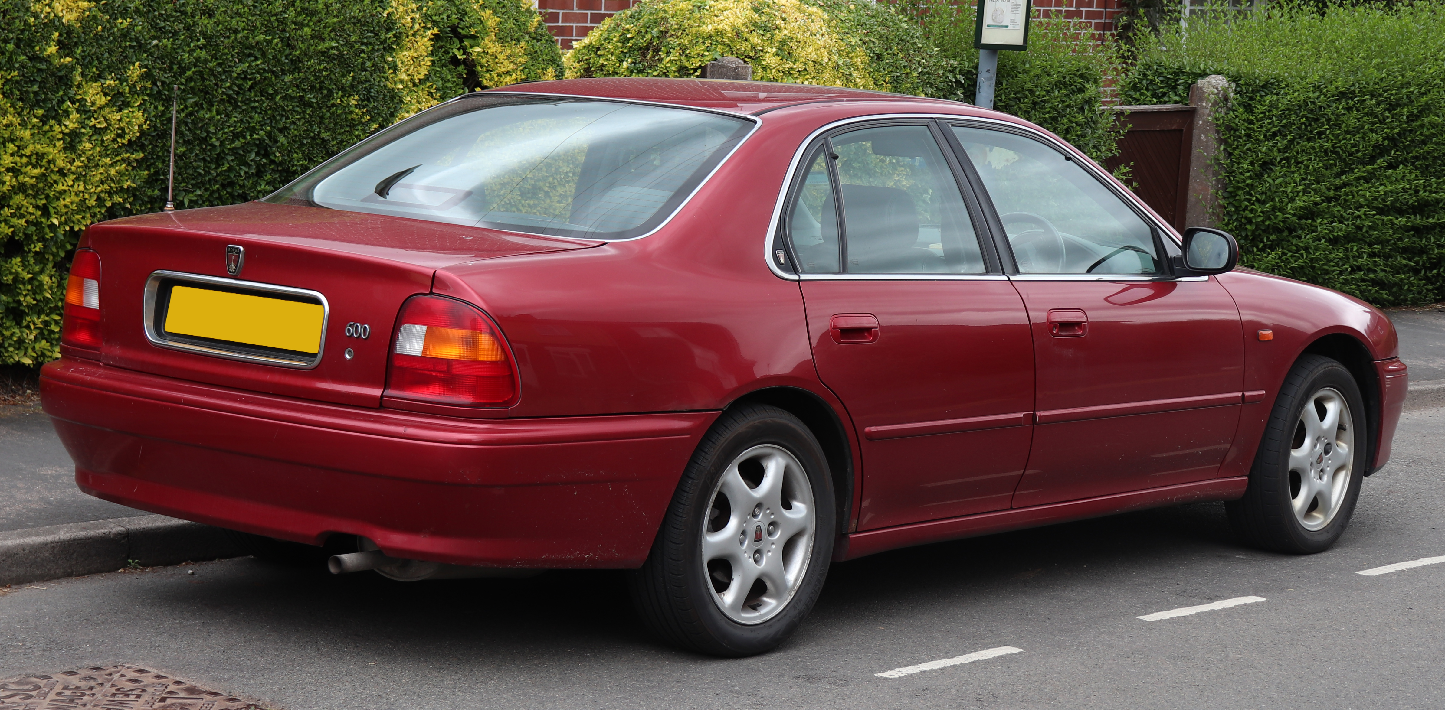 1999 Rover 618i S 1.8 Rear Taken in Leamington Spa